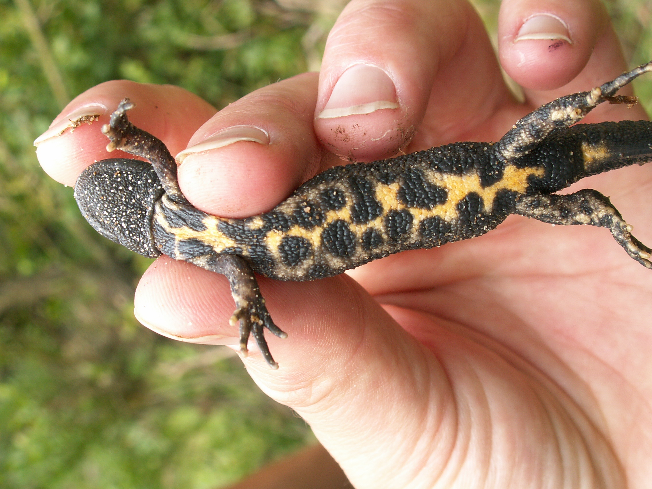 Belly of male Triturus carnifex, the vague pattern is characteristic of this species